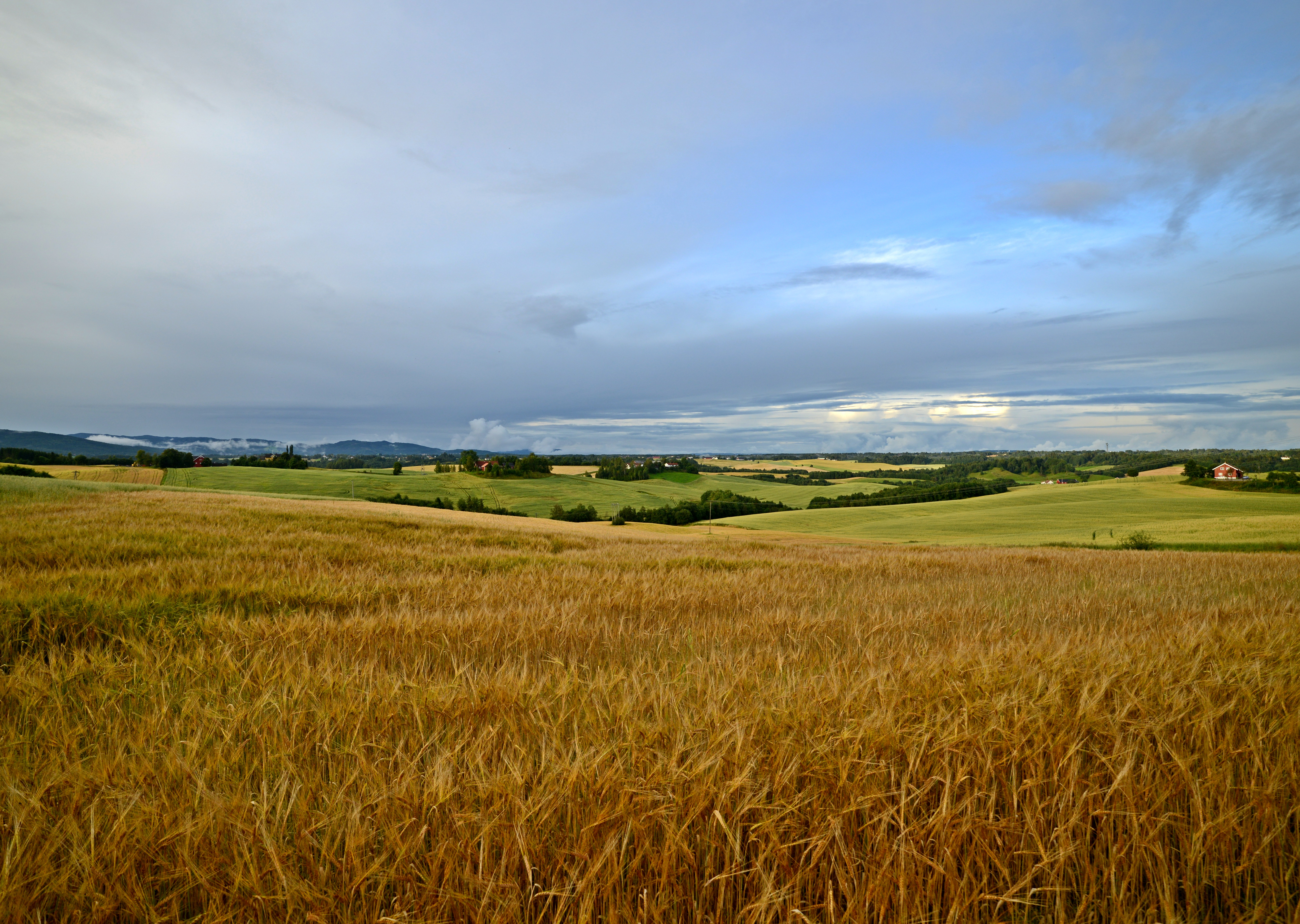 Nannestad countryside